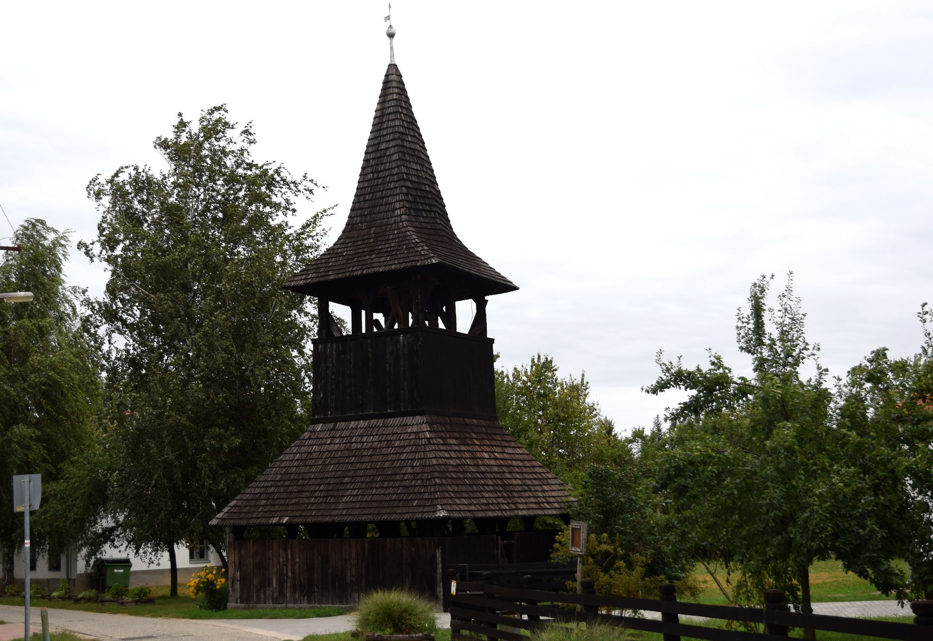 Csaroda, bell tower